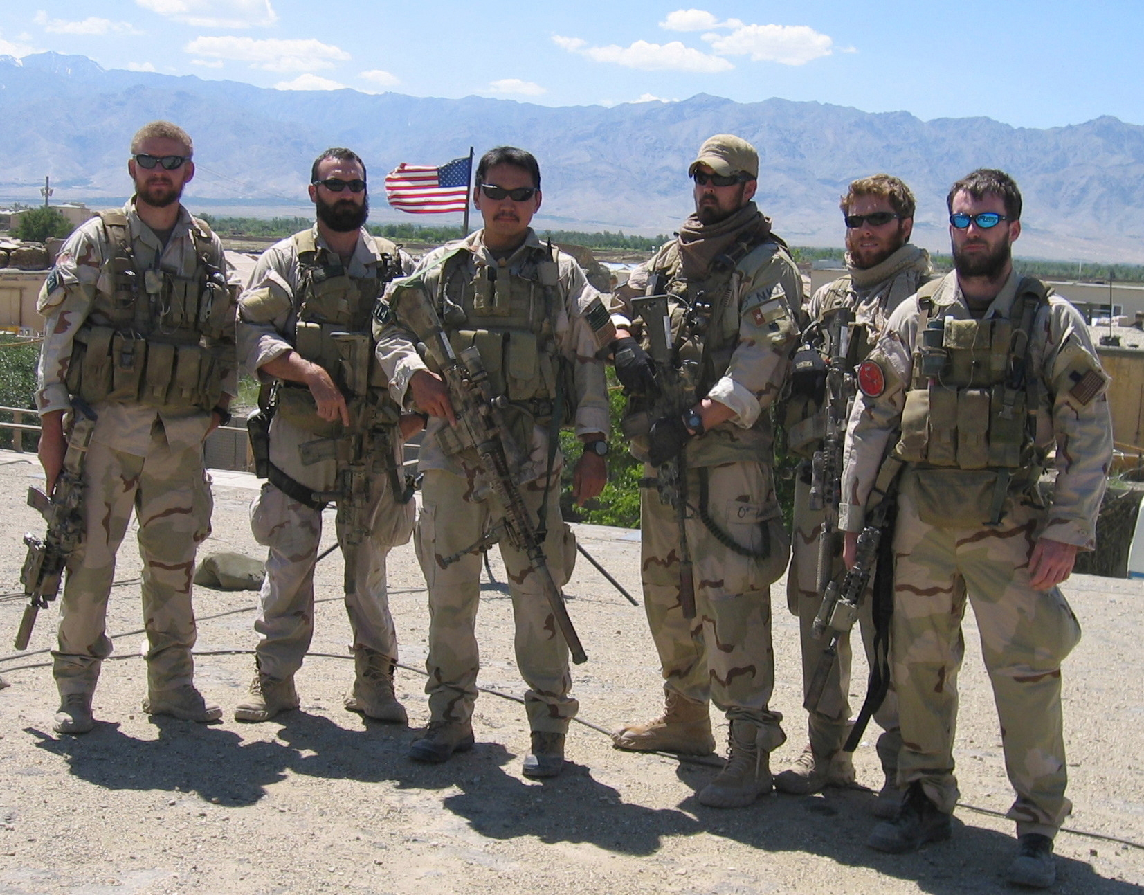 050628-N-0000X-001 United States Navy file photo of Navy SEALs operating in Afghanistan in support of Operation Enduring Freedom. From left to right, Sonar Technician (Surface) 2nd Class Matthew G. Axelson, of Cupertino, Calif; Senior Chief Information Systems Technician Daniel R. Healy, of Exeter, N.H.; Quartermaster 2nd Class James Suh, of Deerfield Beach, Fla.; Hospital Corpsman 2nd Class Marcus Luttrell; Machinist’s Mate 2nd Class Shane Patton, of Boulder City, Nev.; and Lt. Michael P. Murphy, of Patchogue, N.Y. With the exception of Luttrell, all were killed June 28, 2005, by enemy forces while supporting Operation Red Wings.